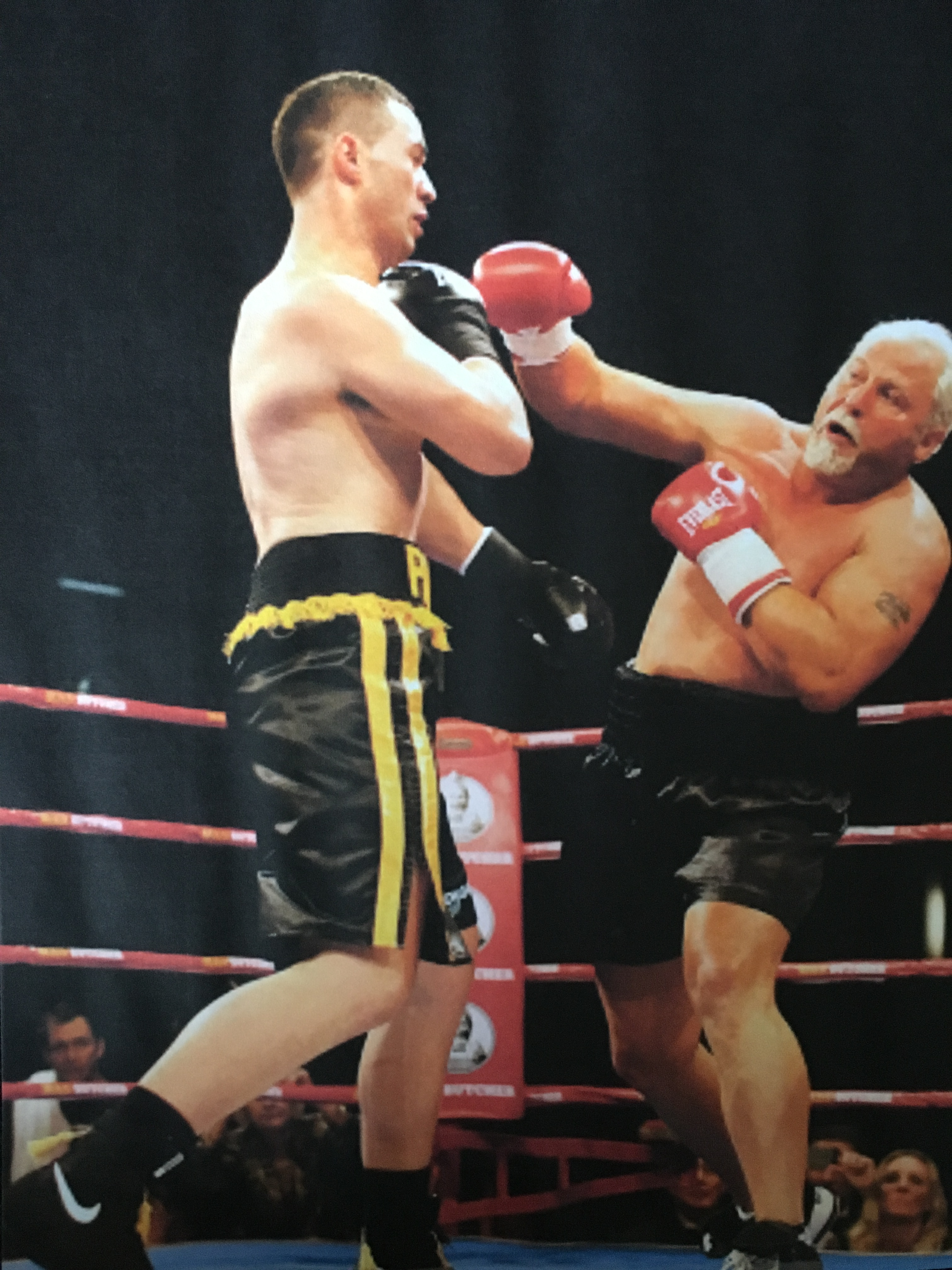 Joe Parker vs Francois Botha at Trusts Stadium, June 2013.